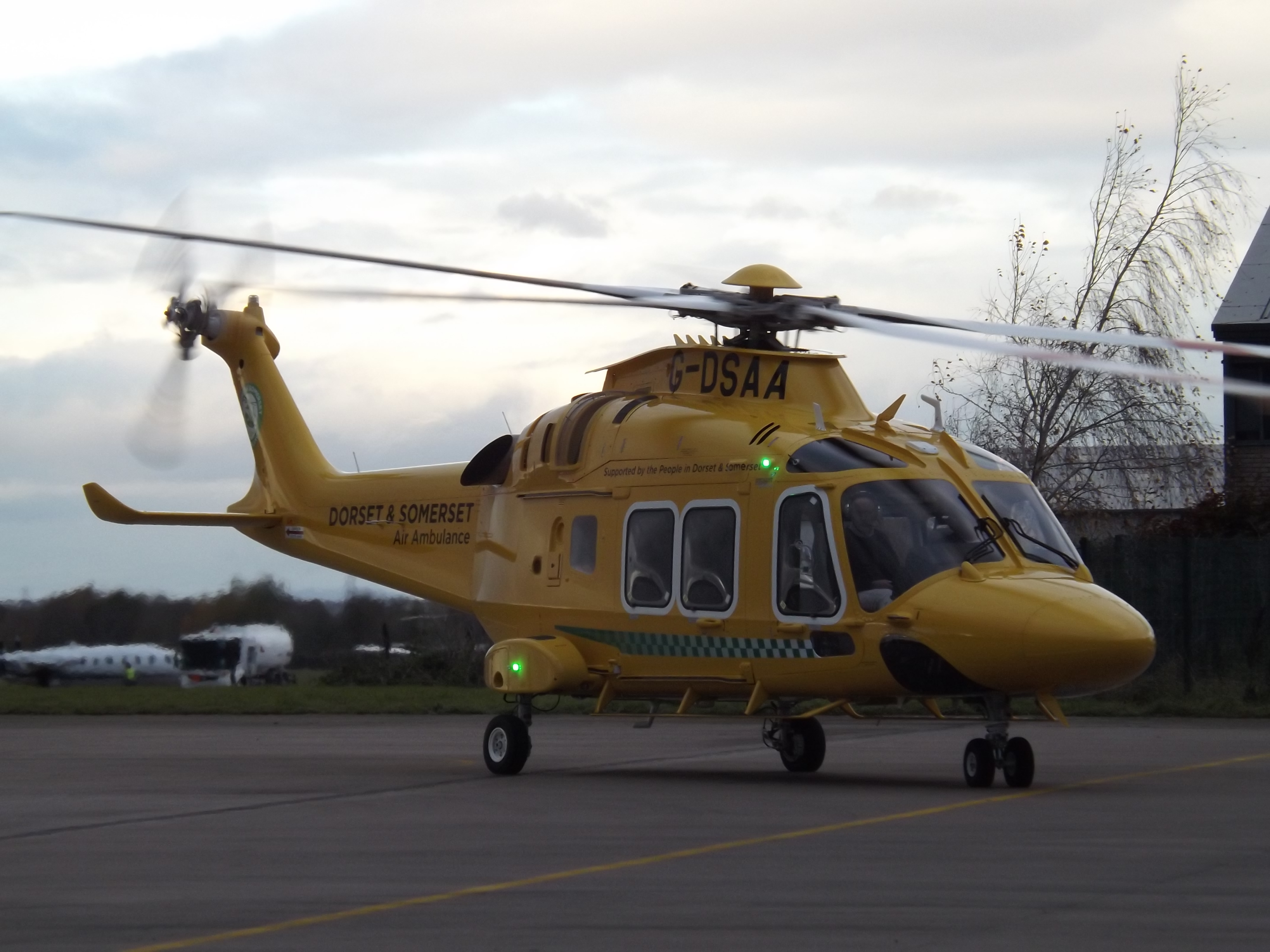 At Gloucestershire Airport.